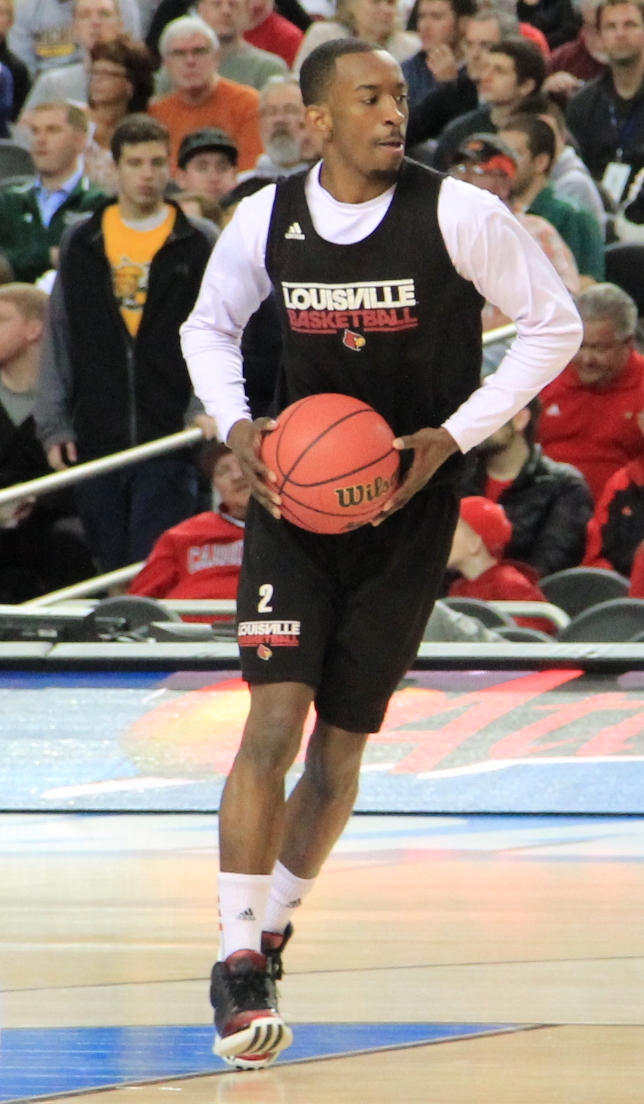 Louisville Cardinals basketball player Russ Smith